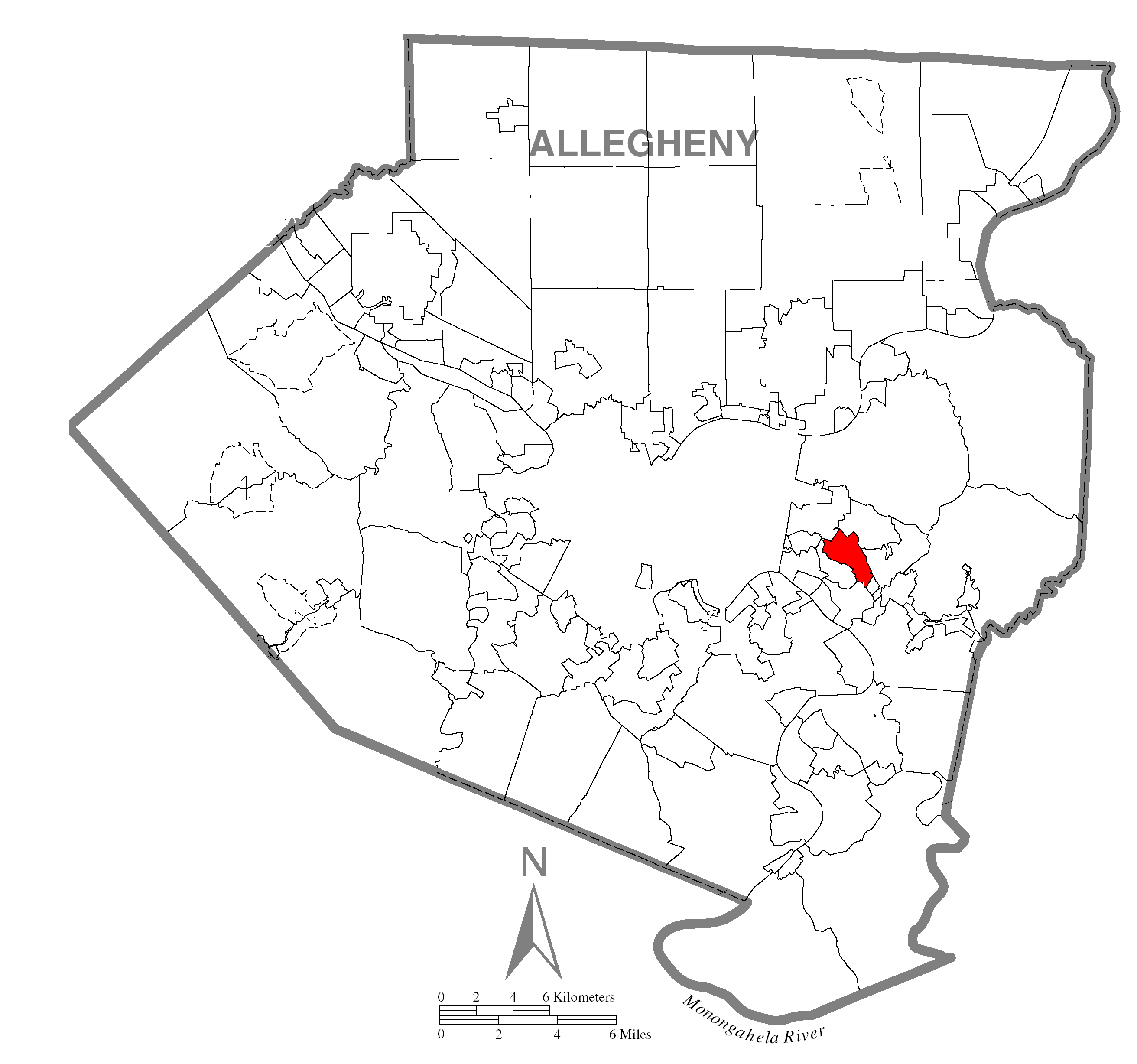 A map of Allegheny County showing Forest Hills, Pennsylvania (alternate) highlighted on the map.